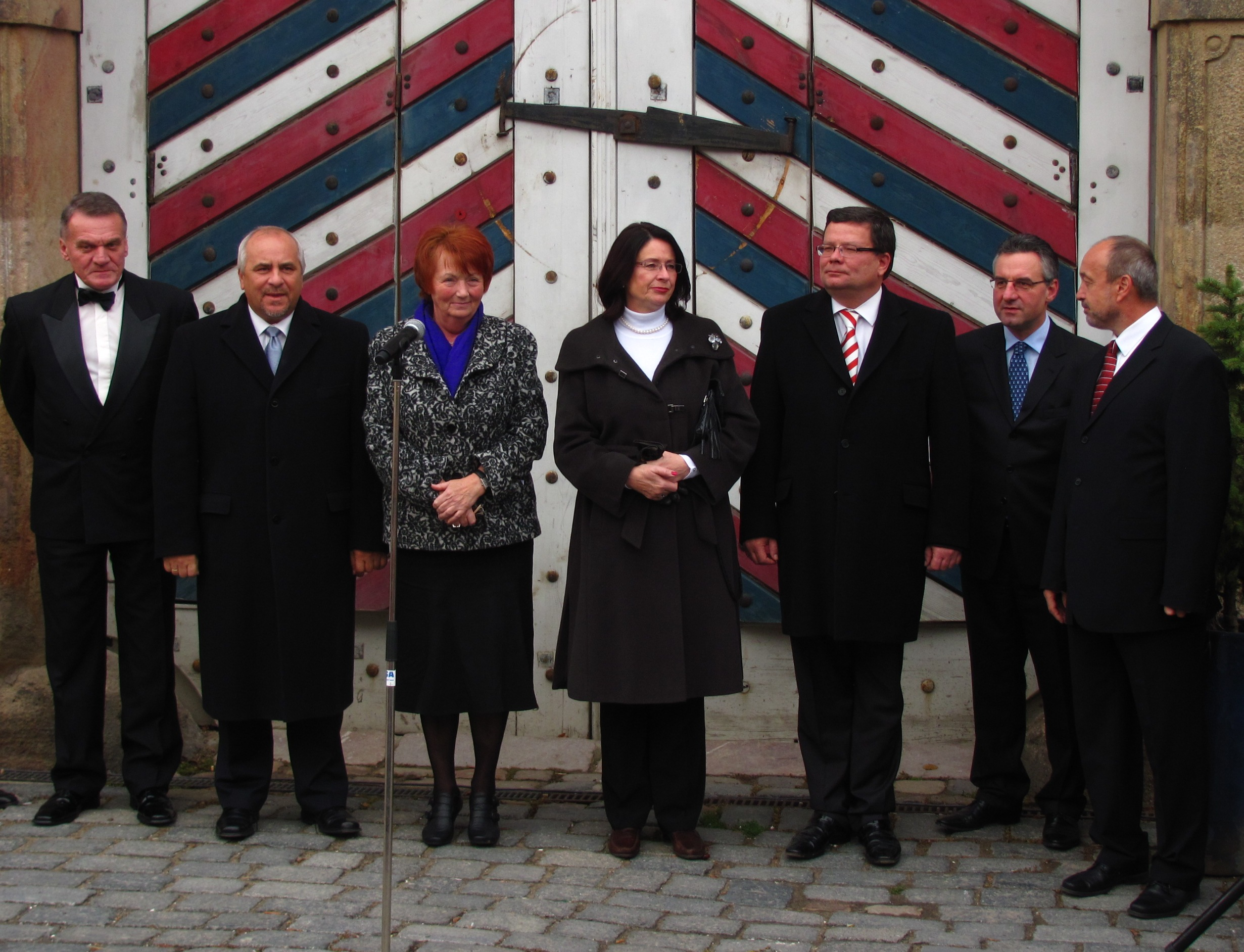 Miroslava Němcová (in the center), Chairperson of the Chamber of Deputies of Parliament of the Czech Republic